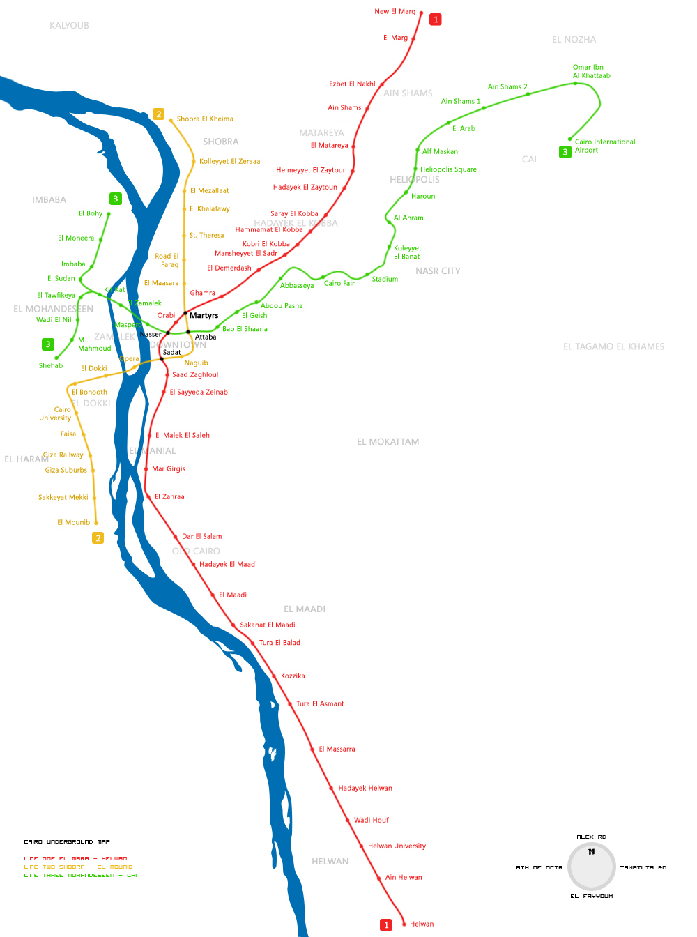 Plan of the Cairo Metro